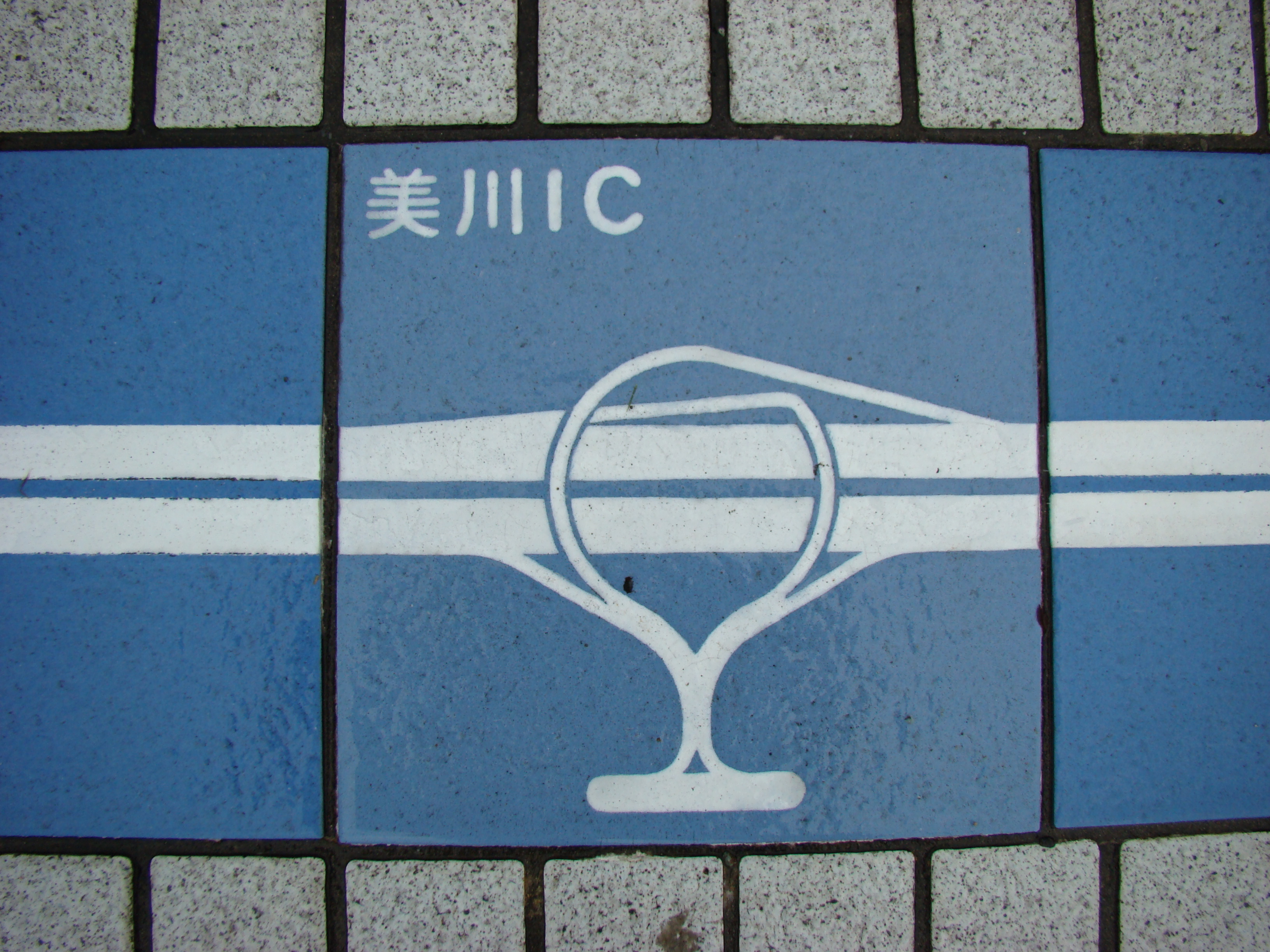 The tile which designed a shape of the Mikawa Interchange（Hokuriku Expressway）（There is this tile in Hokuriku Expressway Nadachi-Tanihama Service Area.）. Place - Chayagahara,Joetsu City,Niigata Prefecture,Japan Date - August 9, 2009 Format - JPEG, 3264x2448pixel, 24bit colors. Photographer - NALA Wiki (talk)